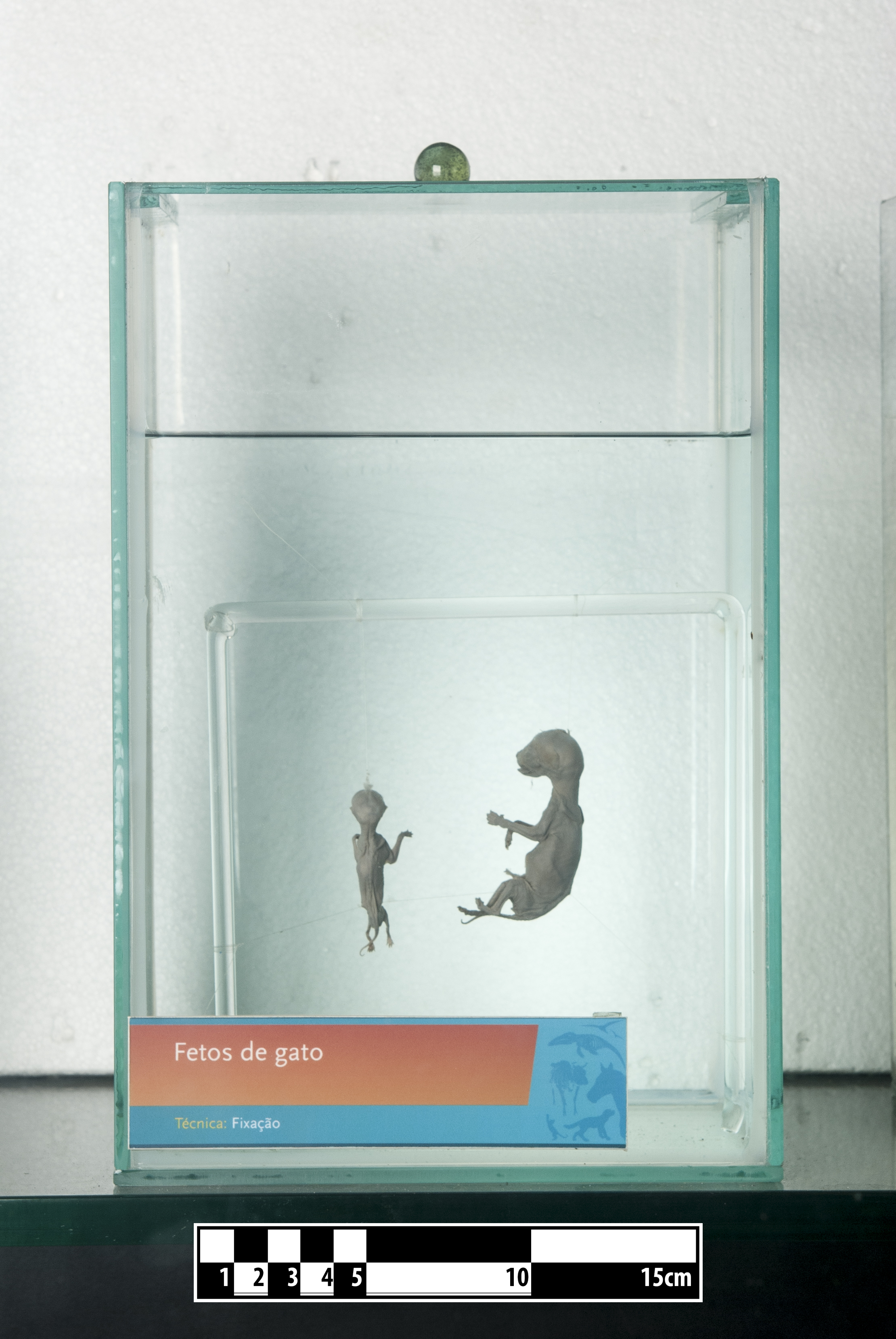 Fetuses of two cats Felis catus. Technique of formalin fixation on display at the Museum of Veterinary Anatomy, FMVZ USP. This file was published as the result of a partnership between the Museum of Veterinary Anatomy FMVZ USP, the RIDC NeuroMat and the Wikimedia Community User Group Brasil. This GLAM project is reported.